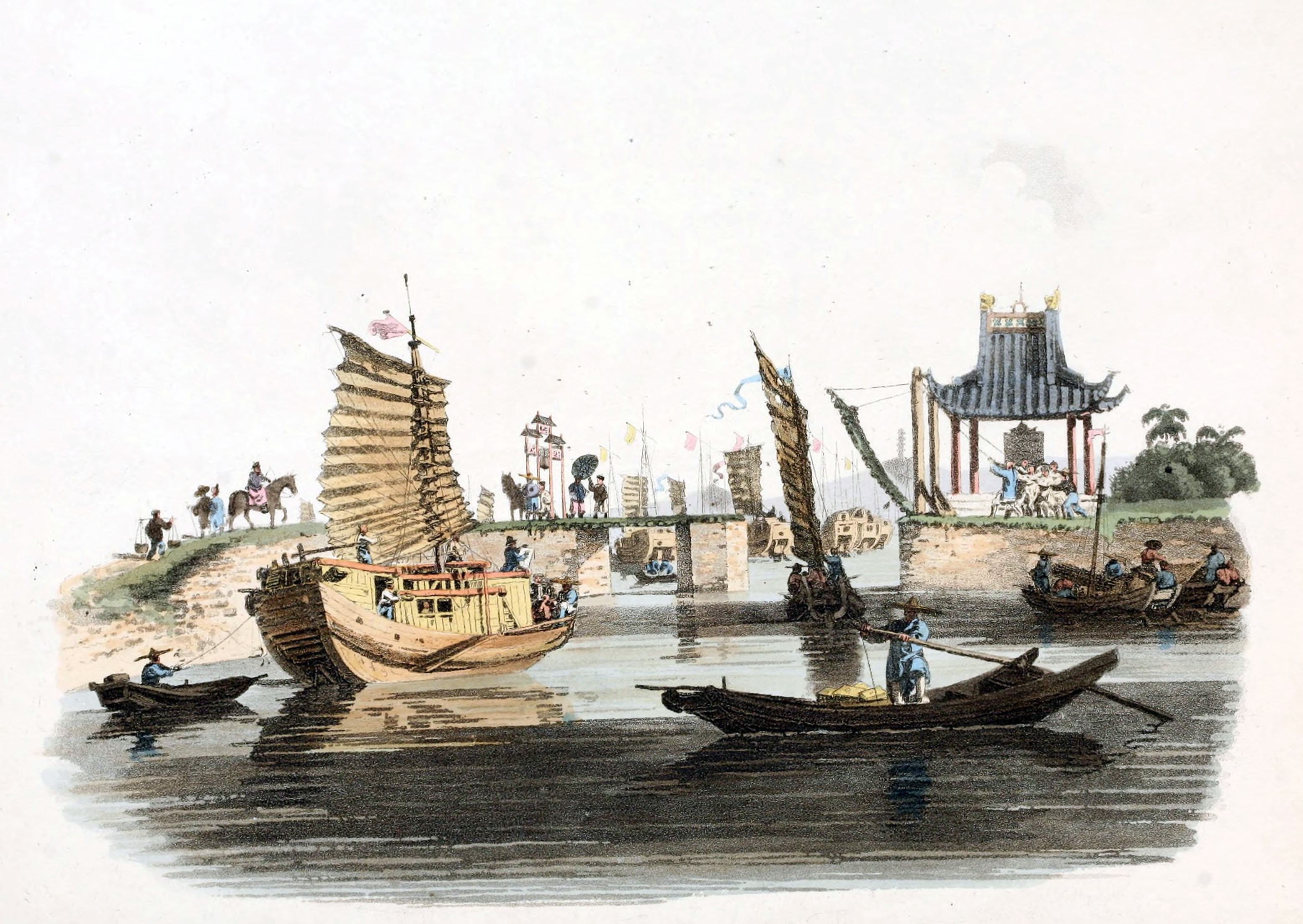 Drawing by William Alexander, draughtsman of the Macartney Embassy to China in 1793. A view of the Imperial, or Grand canal of China, which was extending from Canton to Peking, with river vessels passing through a sluice. Alexander noted that canals in China were very common and played the same role as roads through European countries. Other than transportation, they were also used for irrigation of the rice fields. Locks and sluices of various kinds were therefore very numerous: the print exhibits one designed as a bridge for the foot traffic; the building on the right serves to shelter those who are employed in raising the bridge. The vessel having the yellow or royal flag, was occupied by a part of the British Embassy. Image taken from The Costume of China, illustrated in forty-eight coloured engravings, published in London in 1805.